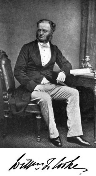 Picture of William Fothergill Cooke (1806-1879), the English inventor and telegraph pioneer